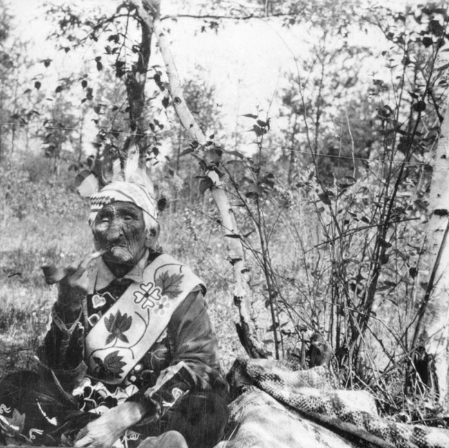 Wrinkled Meat, medicine man from Cass Lake